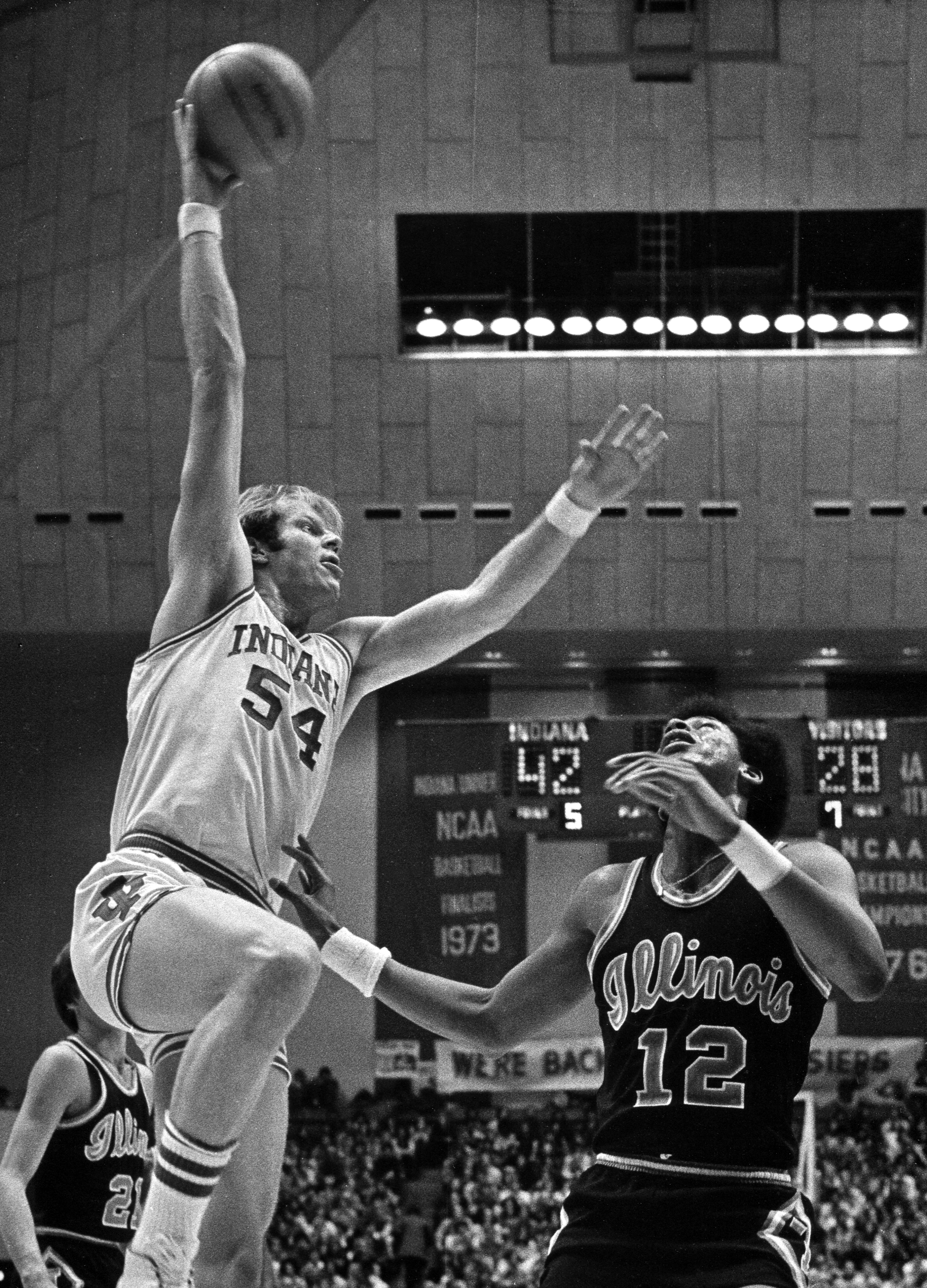 Indiana University Center Kent Benson makes a hook shot in a Big Ten college basketball game against the University of Illinois during the 1976-1977 season. Benson was the only returning starter from the previous season's undefeated national championship-winning team.